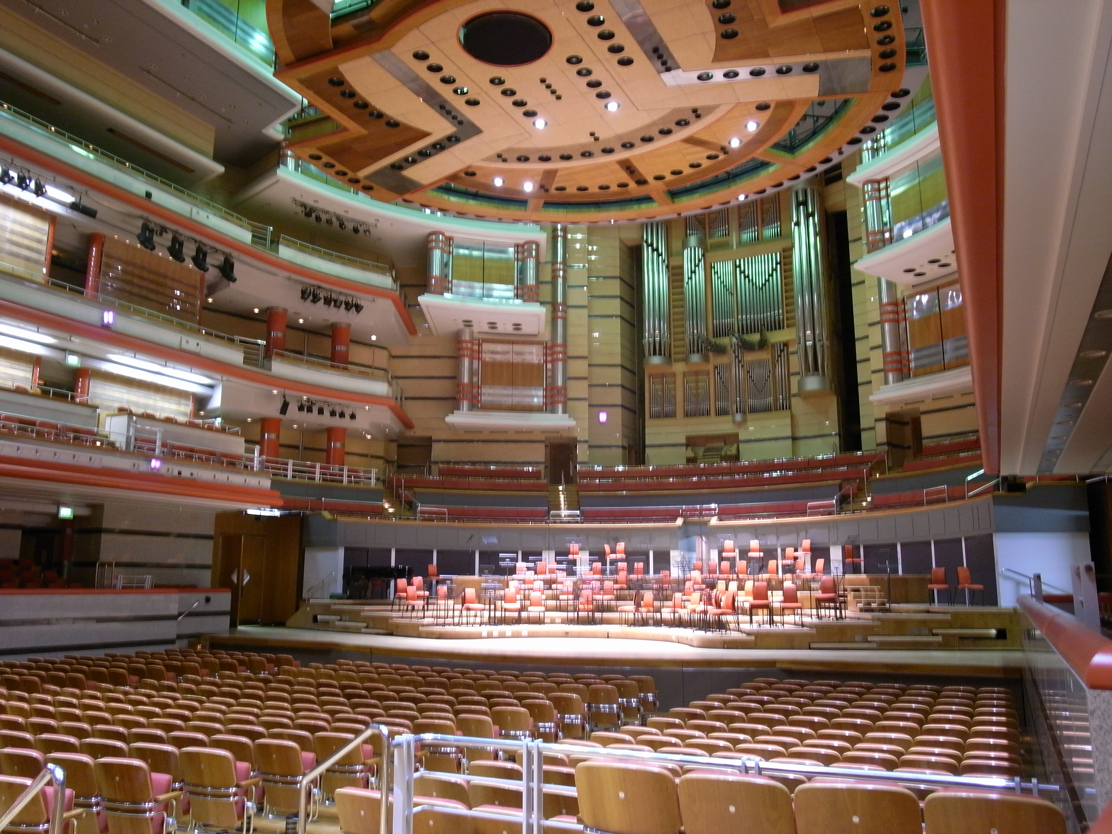 The interior of Symphony Hall, Birmingham, England.